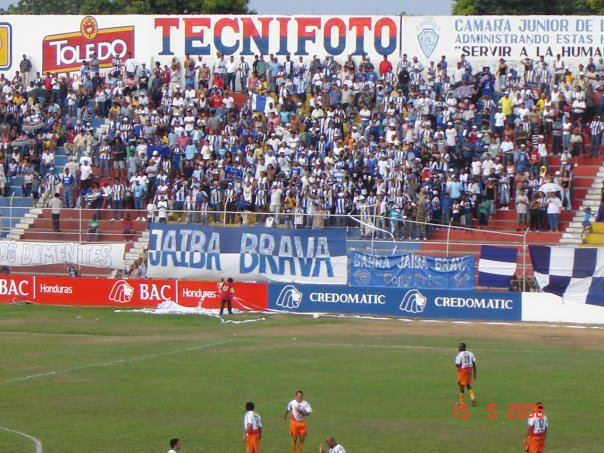 The Barra